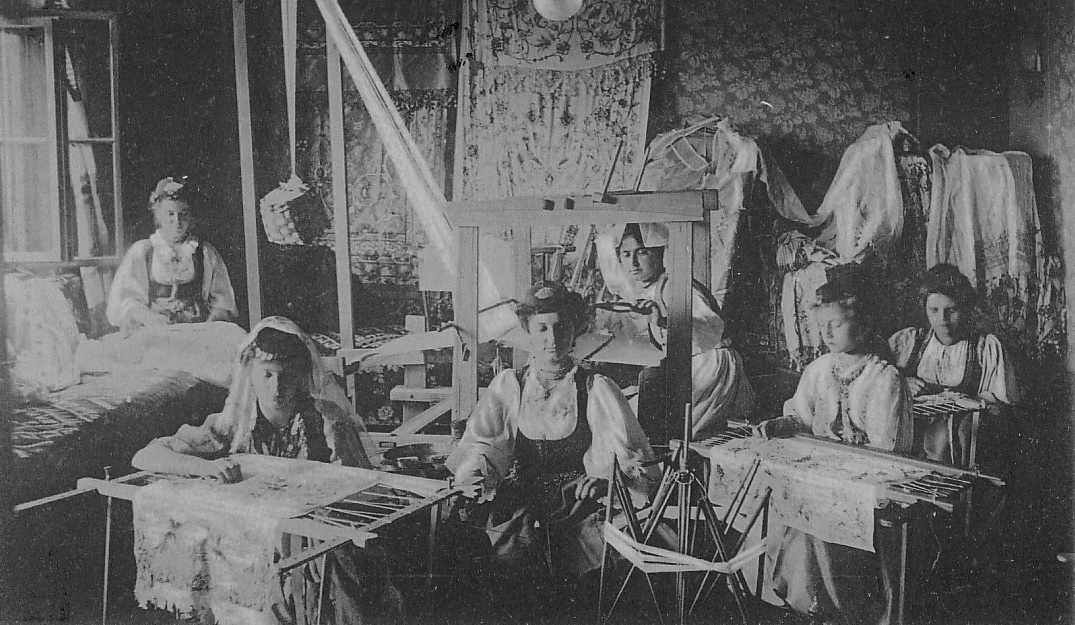 Women working in a Sarajevo textile factory, 1910.